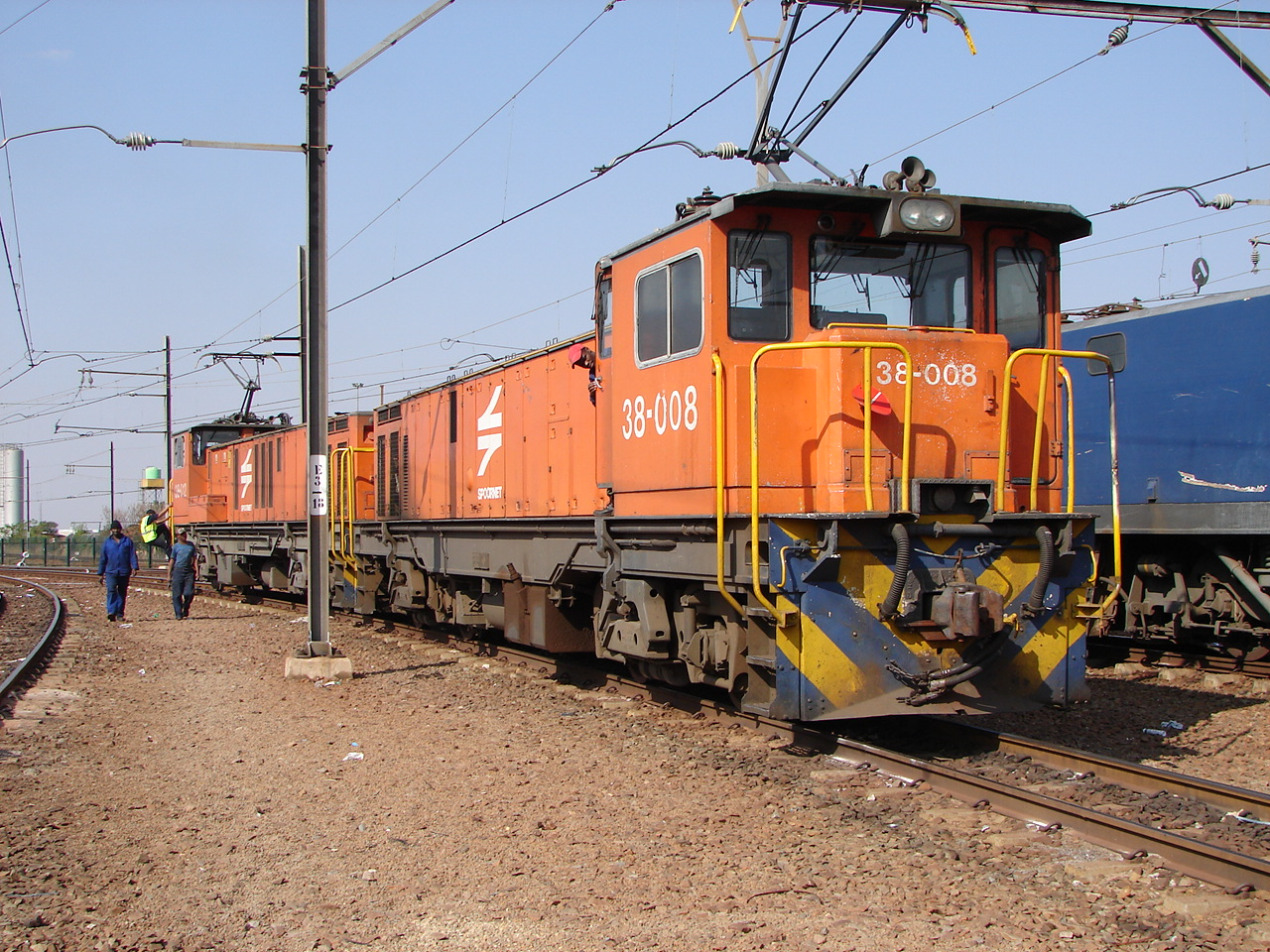 Spoornet Class 38-000 38-008 Location: Sentrarand, Gauteng